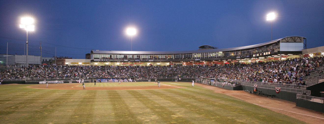 Oldsmobile Park view from the outfield